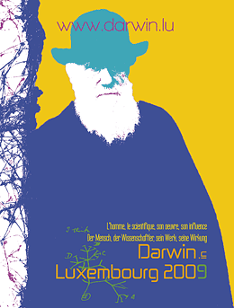 Poster of the National Natural History Museum of Luxembourg for the Charles Darwin celebration in 2009